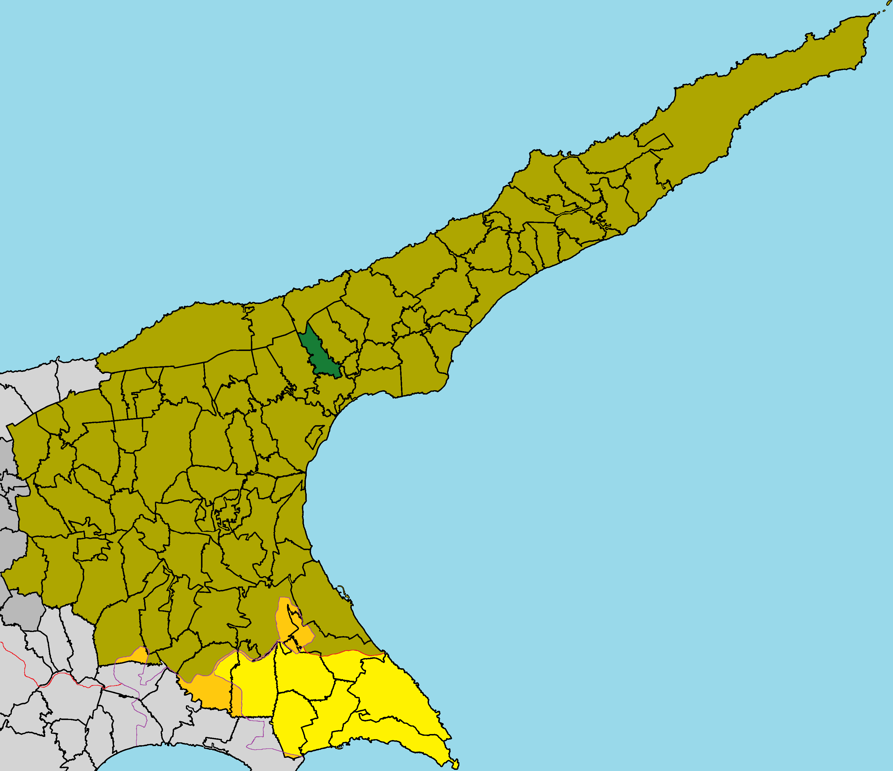 Gerani in Famagusta District (de jure).